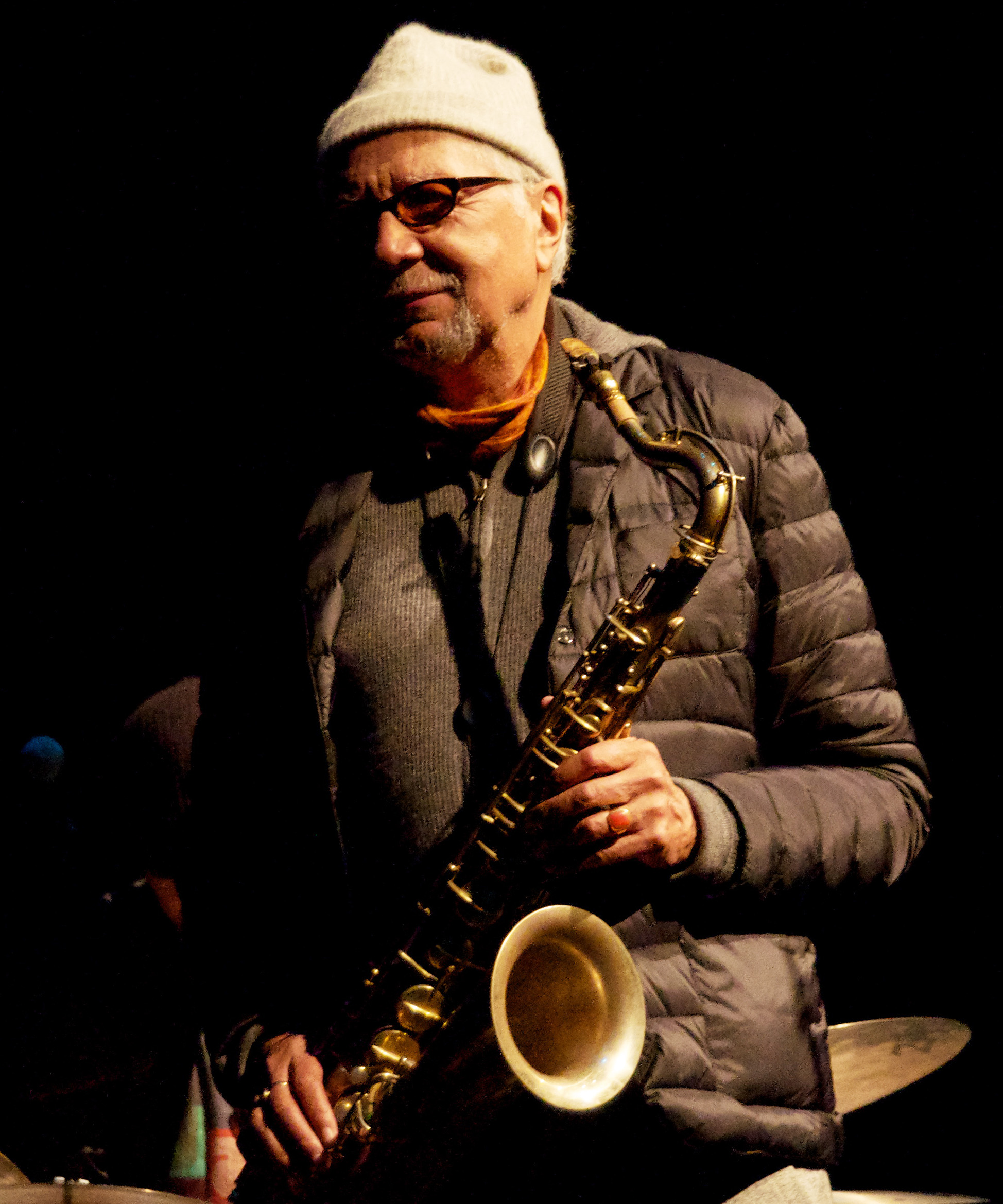 Image of jazz musician Charles Lloyd, taken in Melbourne, Australia on May 30, 2014 by Dorothy Darr. Intended for use in the wiki article: Charles_Lloyd_(jazz_musician)